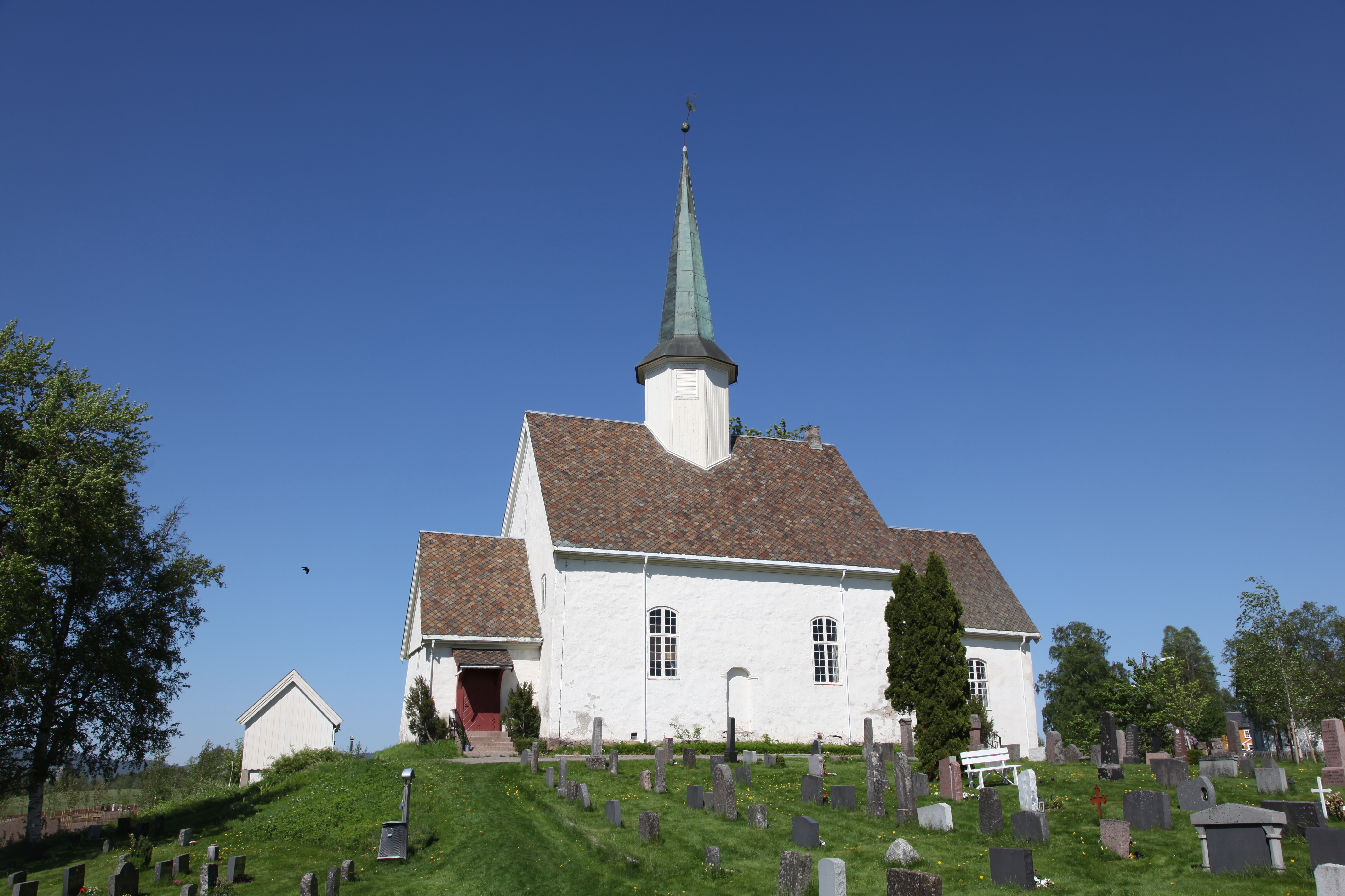 Nannestad church. Nannestad, Norway